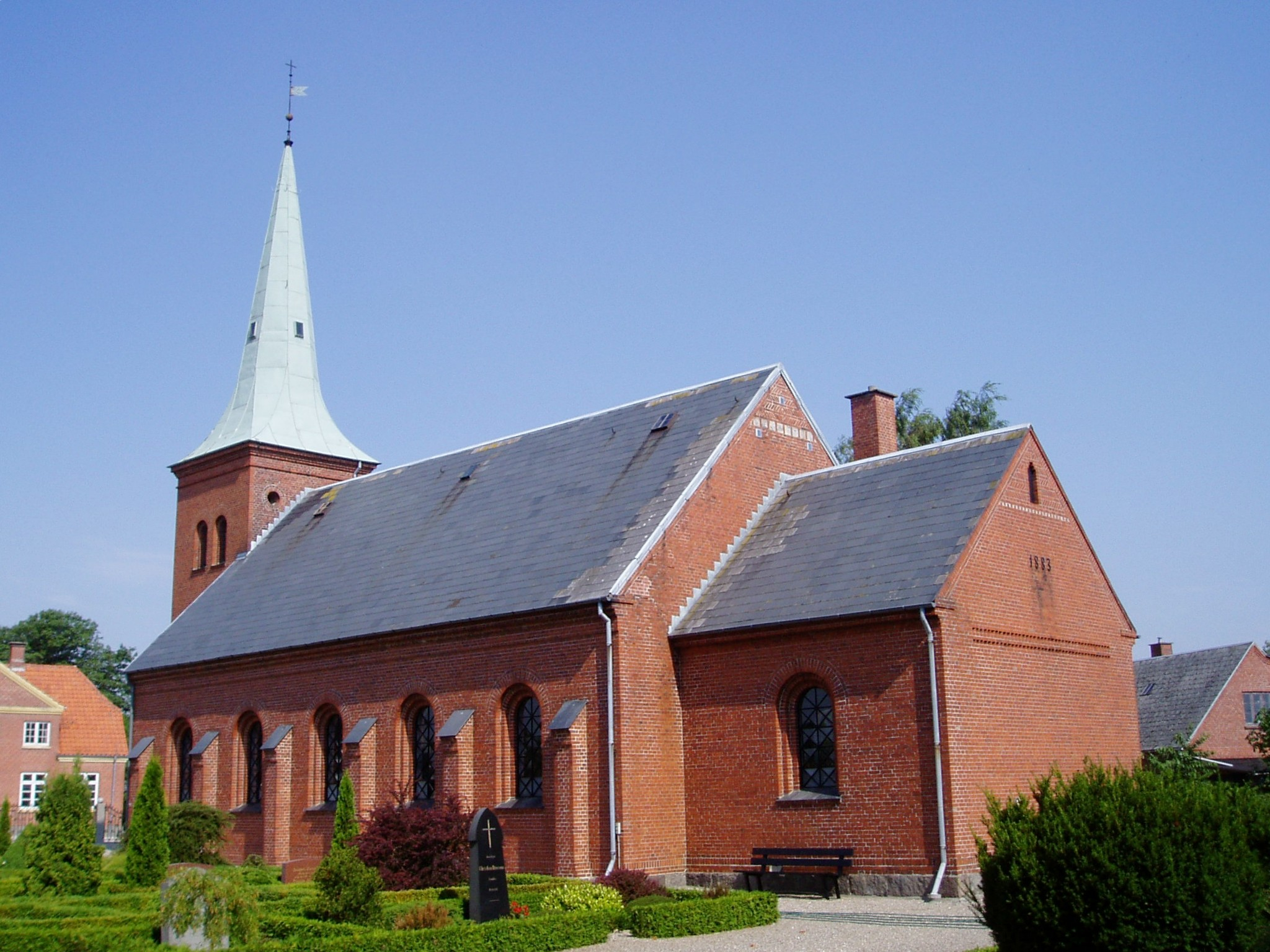 Taarup Church, Denmark.